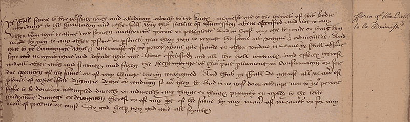 Oath of allegiance, required to swear by Henry VIII's subjects on the validity of his marriage to Anne Boleyn.